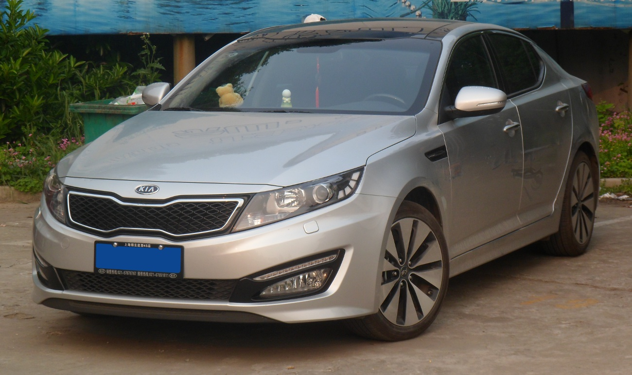 Kia K5 TF photographed in Shanghai, China.